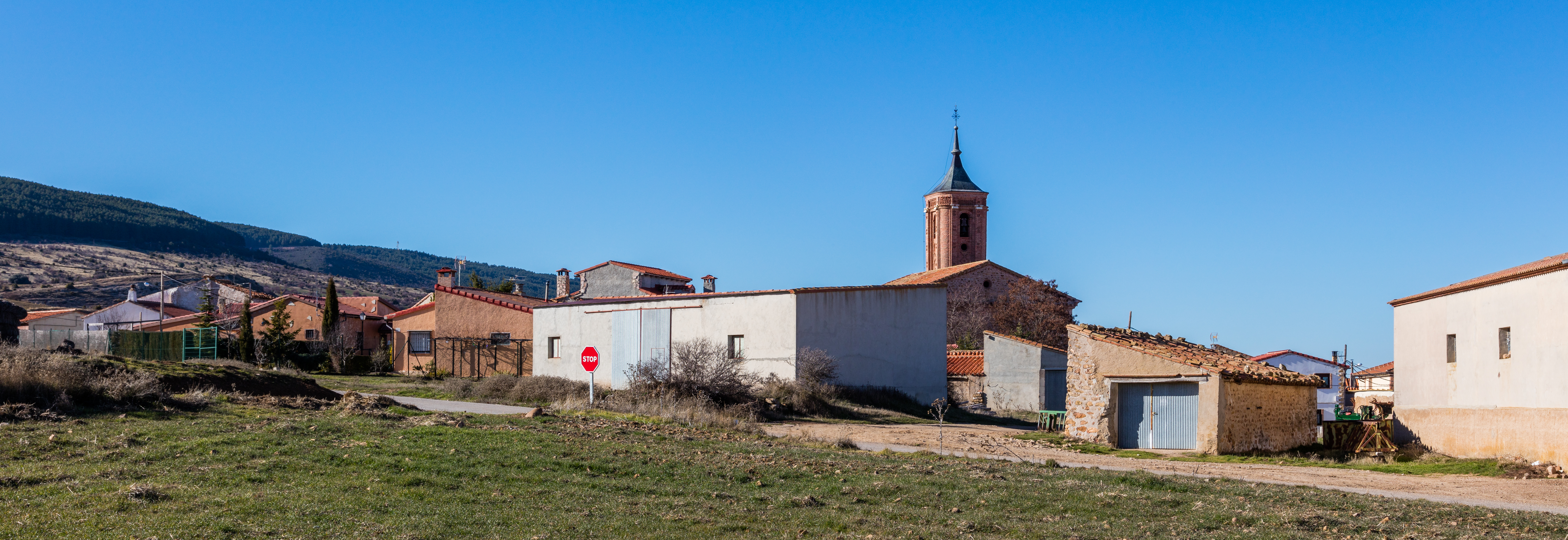 Fonfría, Teruel, Spain